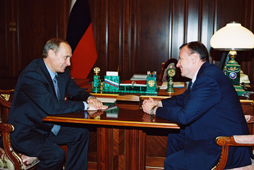 THE KREMLIN, MOSCOW. With President of the Interros company, Vladimir Potanin.